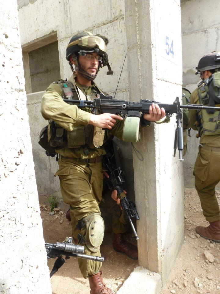 March 11, 2012 Last week, the company commanders of the Kfir Brigade conducted an exercise simulating the takeover of a hostile urban area in which terrorists are hiding. The drill is a part of a larger IDF doctrine: be as efficient as possible while fighting in urban centers by focusing on hostile targets, and hostile targets only. Read more: [ IDF Officers Practice Urban Warfare] The Israel Defense Forces Facebook The Israel Defense Forces blog Follow us on Twitter